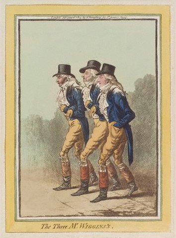 The Three Mr Wiggins's, etching and aquatint of Montague James Mathew (1773–1819), Francis James Mathew, Viscount Mathew (1768-1833), and George Toby Skeffington Mathew (died 1832), published by Hannah Humphrey on 16 June 1803.